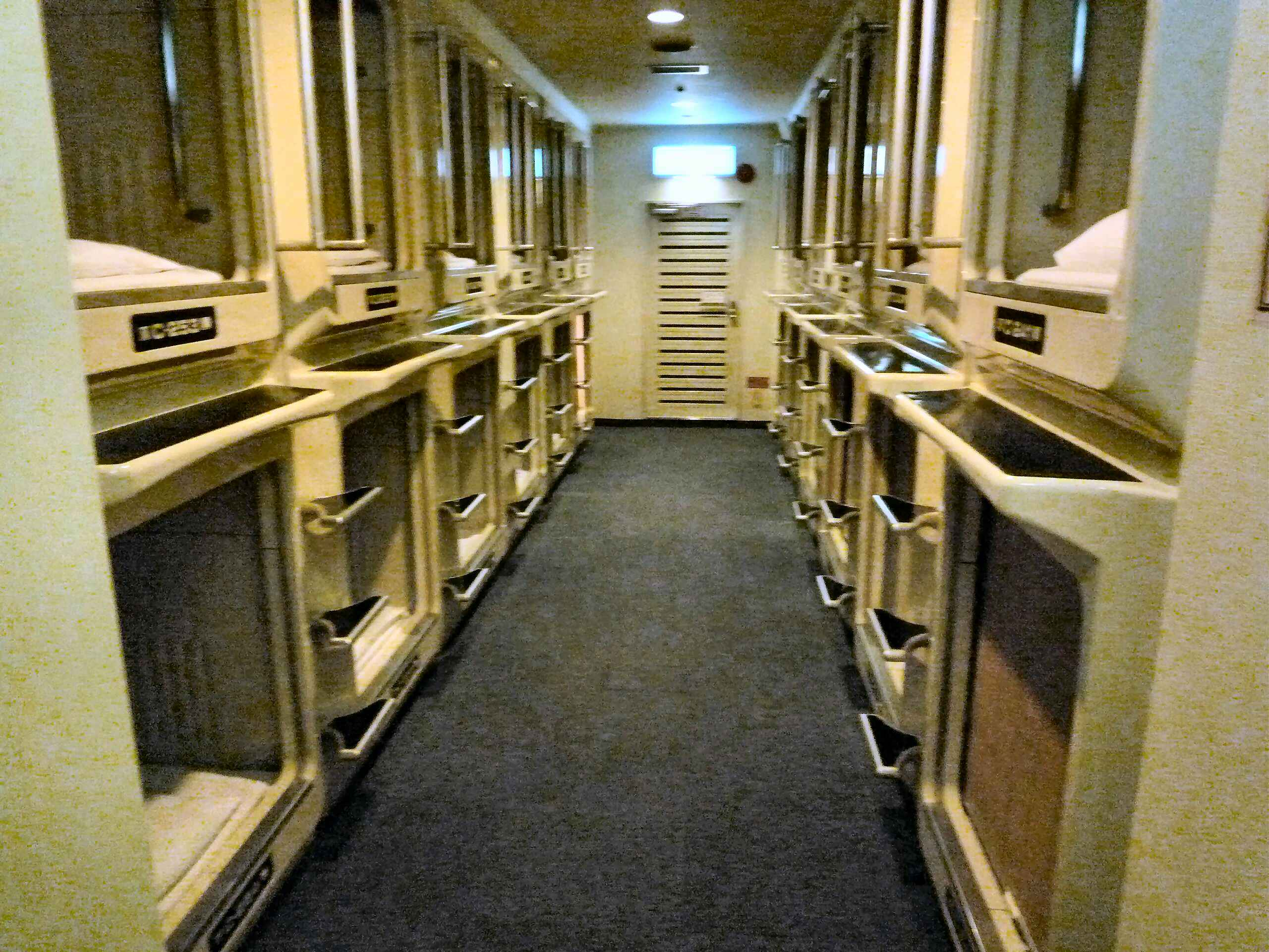 Corridor with capsules